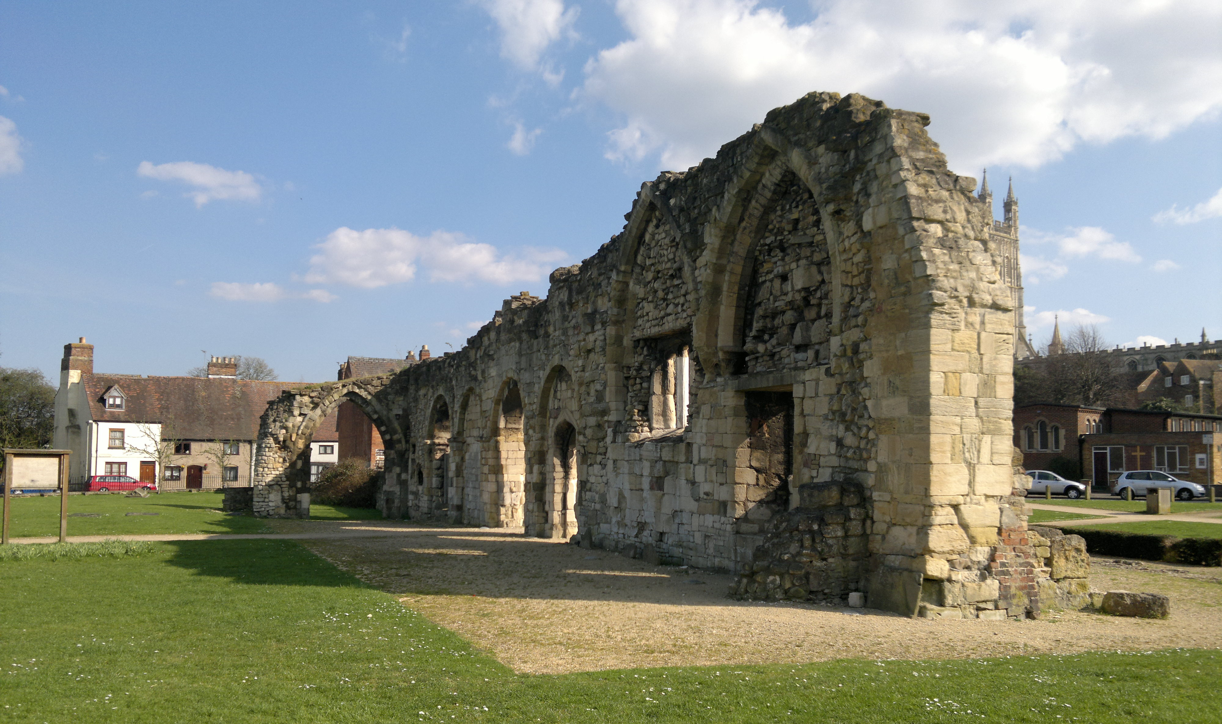 St. Oswald's Priory, Gloucester north side